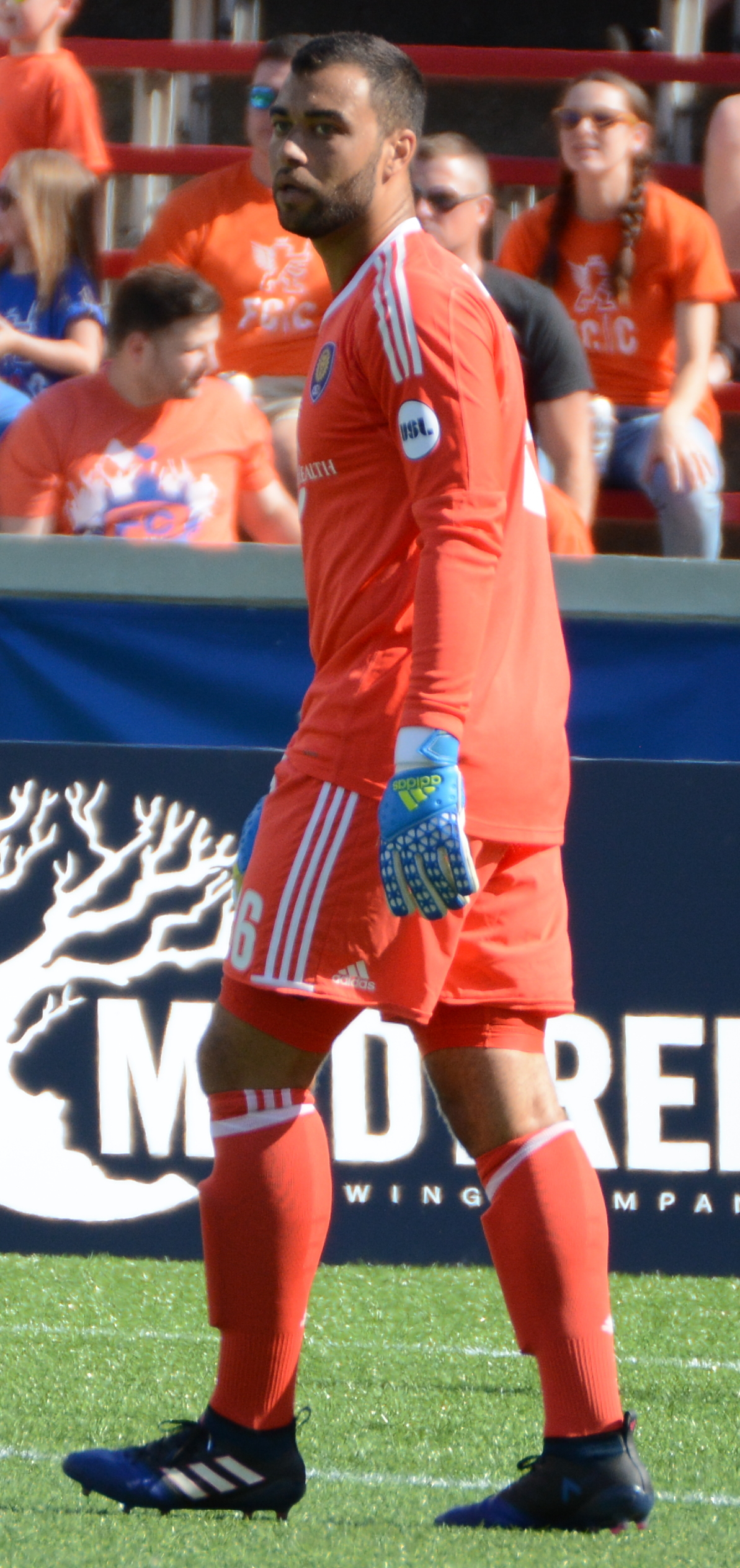 Earl Edwards Jr Taken during a match between FC Cincinnati and Orlando City B at Nippert Stadium in Cincinnati, USA on May 13, 2017.